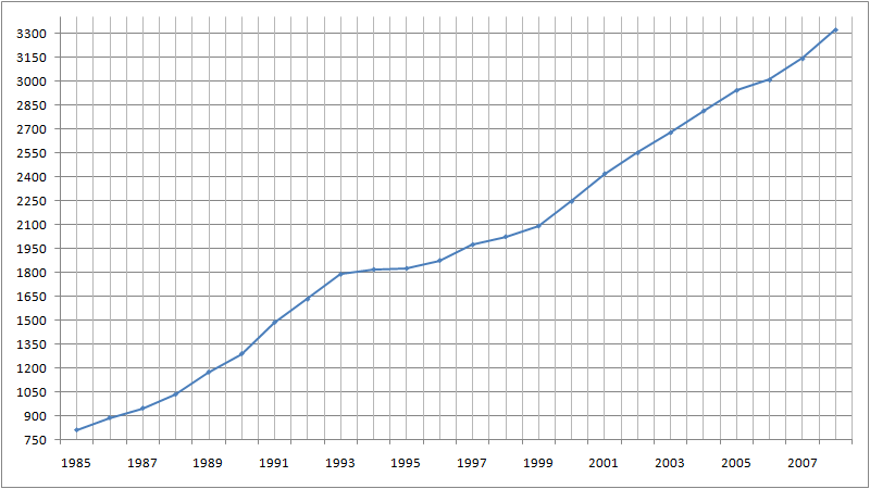 This diagram shows changes in population of Hoyvík since 1985 for 2008. It's made in Microsoft Excel 2007 program.